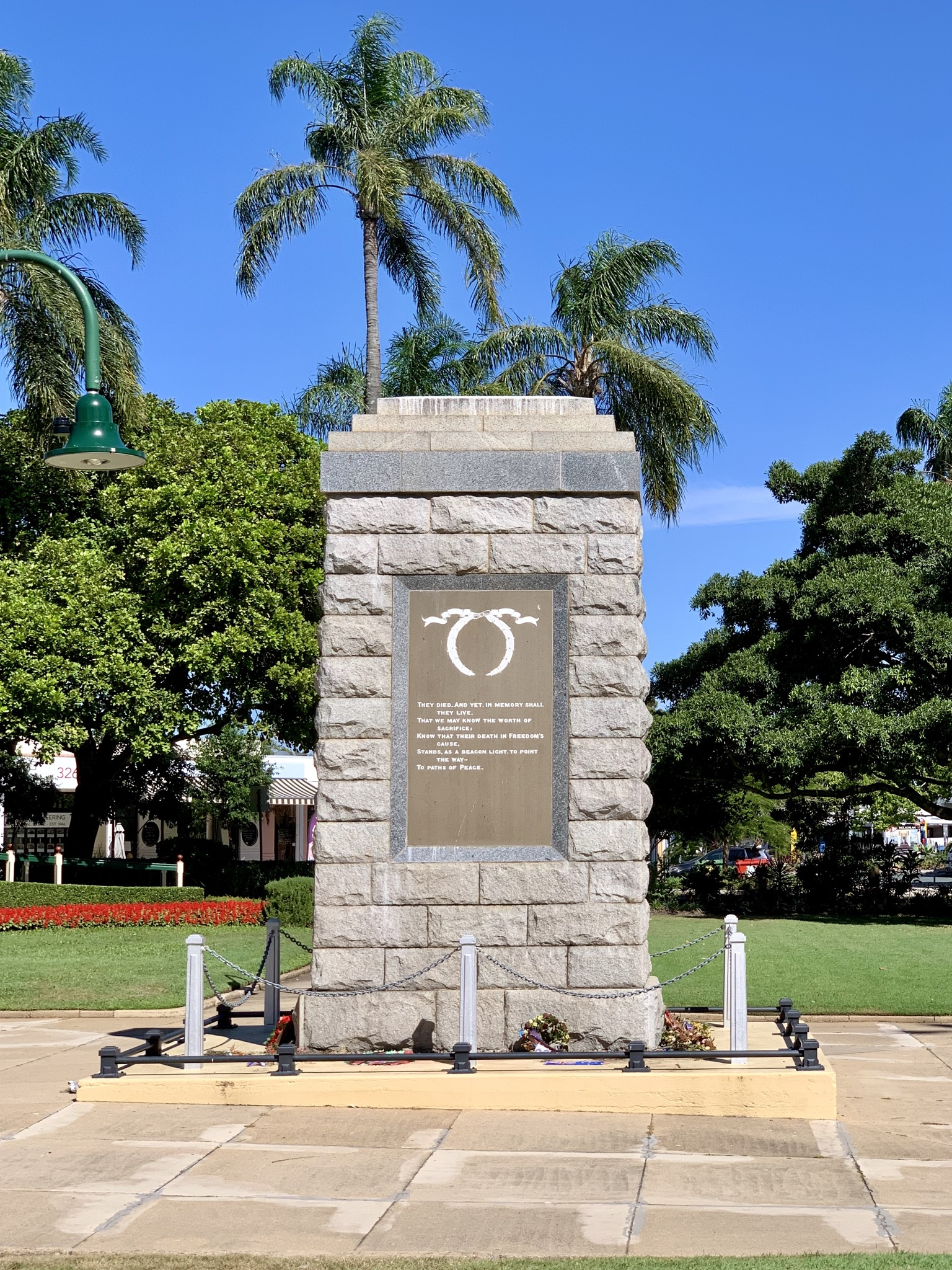 Sandgate War Memorial Park, Queensland, 2020